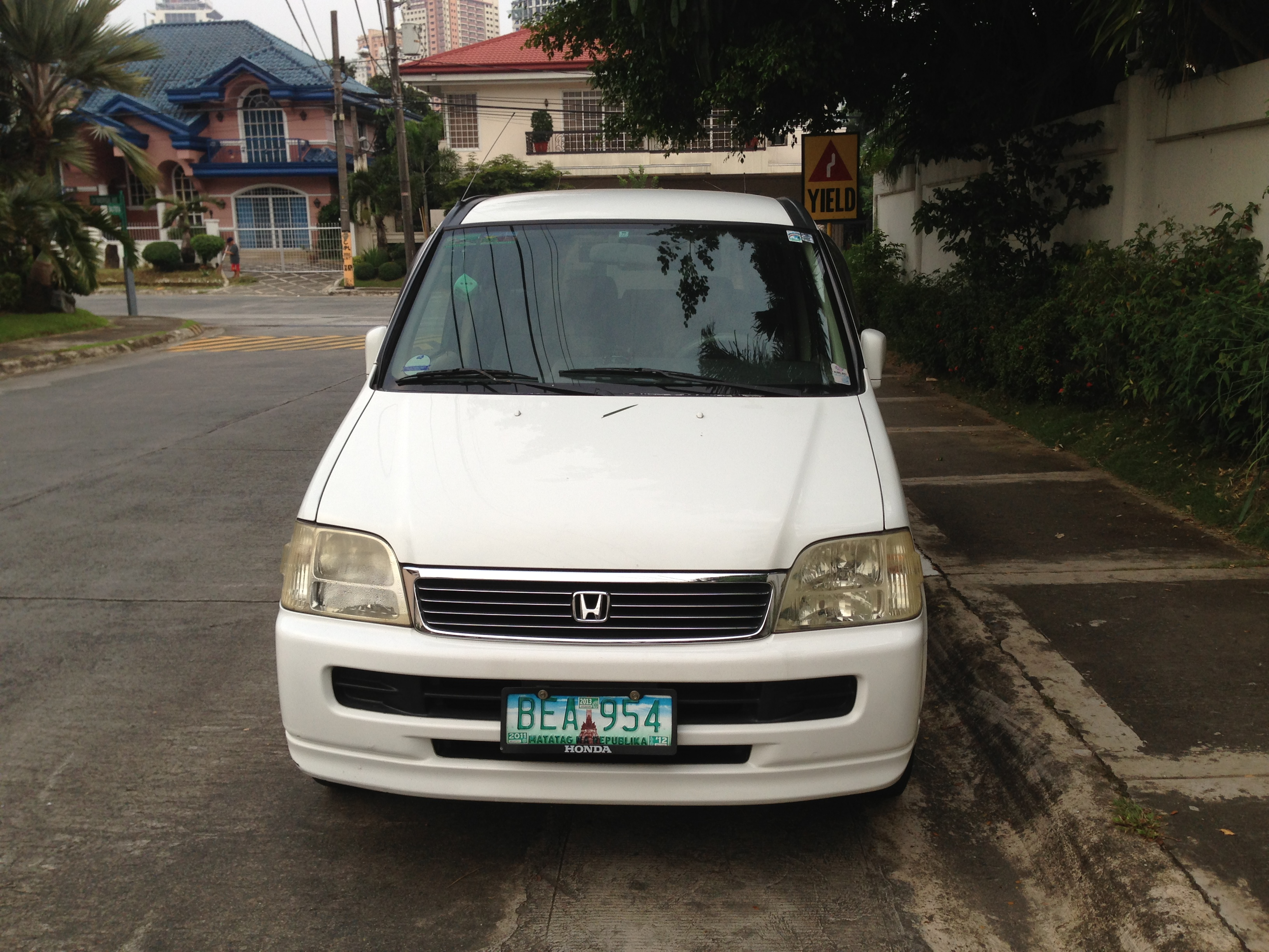 The front side of a Honda Step WGN in Corinthian Gardens, Quezon City, Philippines. Since the van is not sold officially by Honda's Philippine branch, the vehicle was brought in from a RHD country/territory and converted to LHD use since RHD vehicles are illegal under Philippine law, except if they are used in areas that are officially declared to be freeport areas.